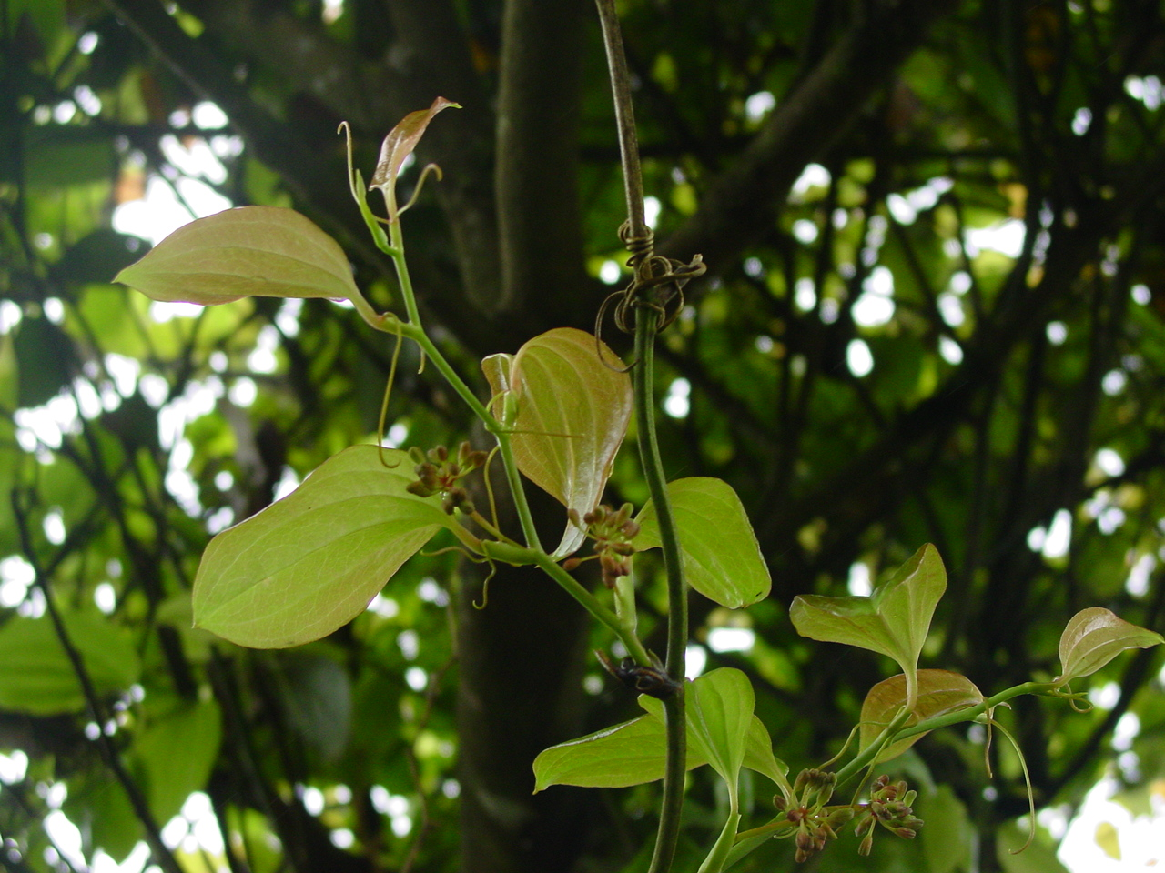 2003, S. Miguel, Azores.